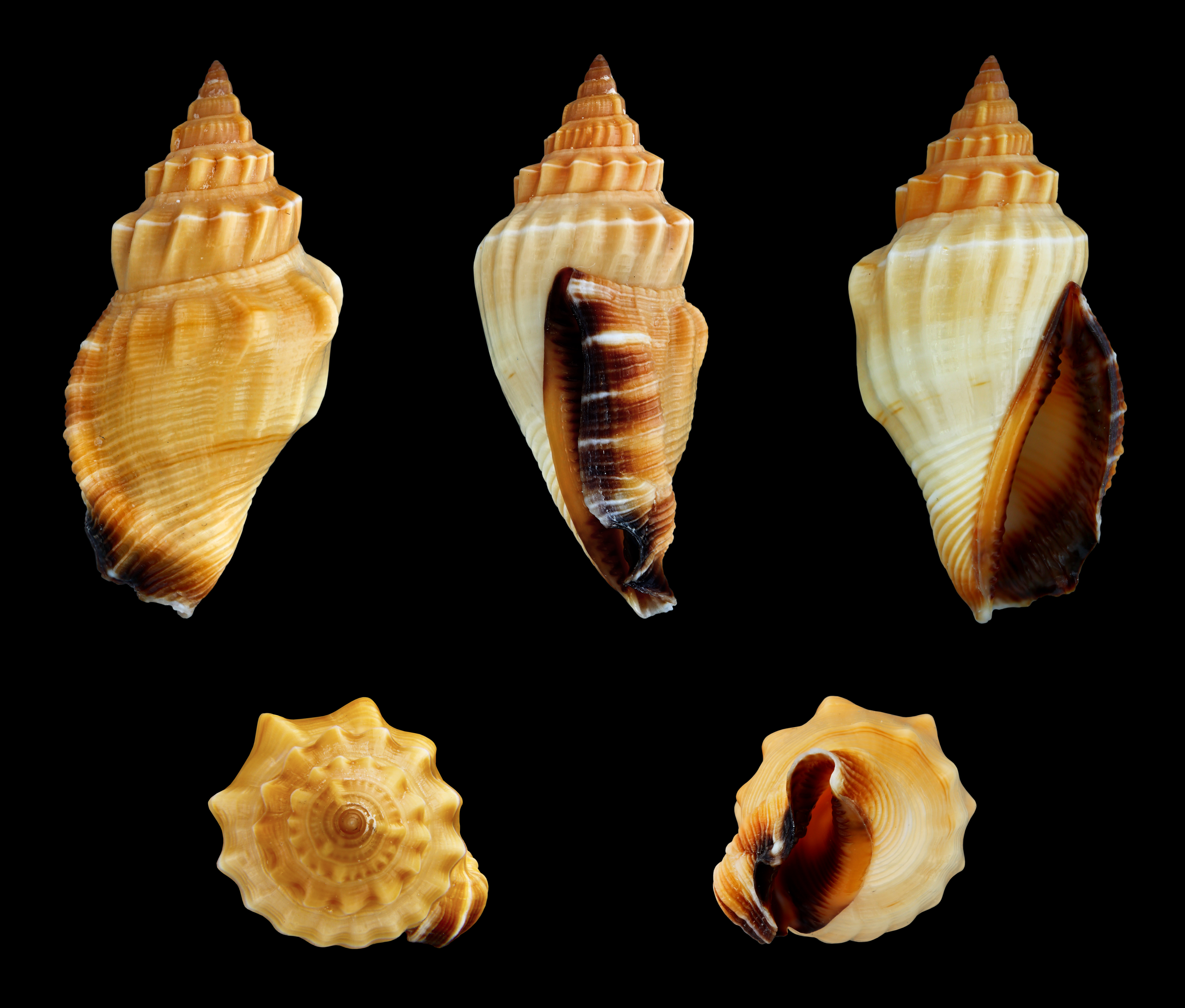 Elegant Conch, Length 3.3 cm; Originating from Bohol, Philippines; Shell of own collection, therefore not geocoded. Dorsal, lateral (right side), ventral, back, and front view.